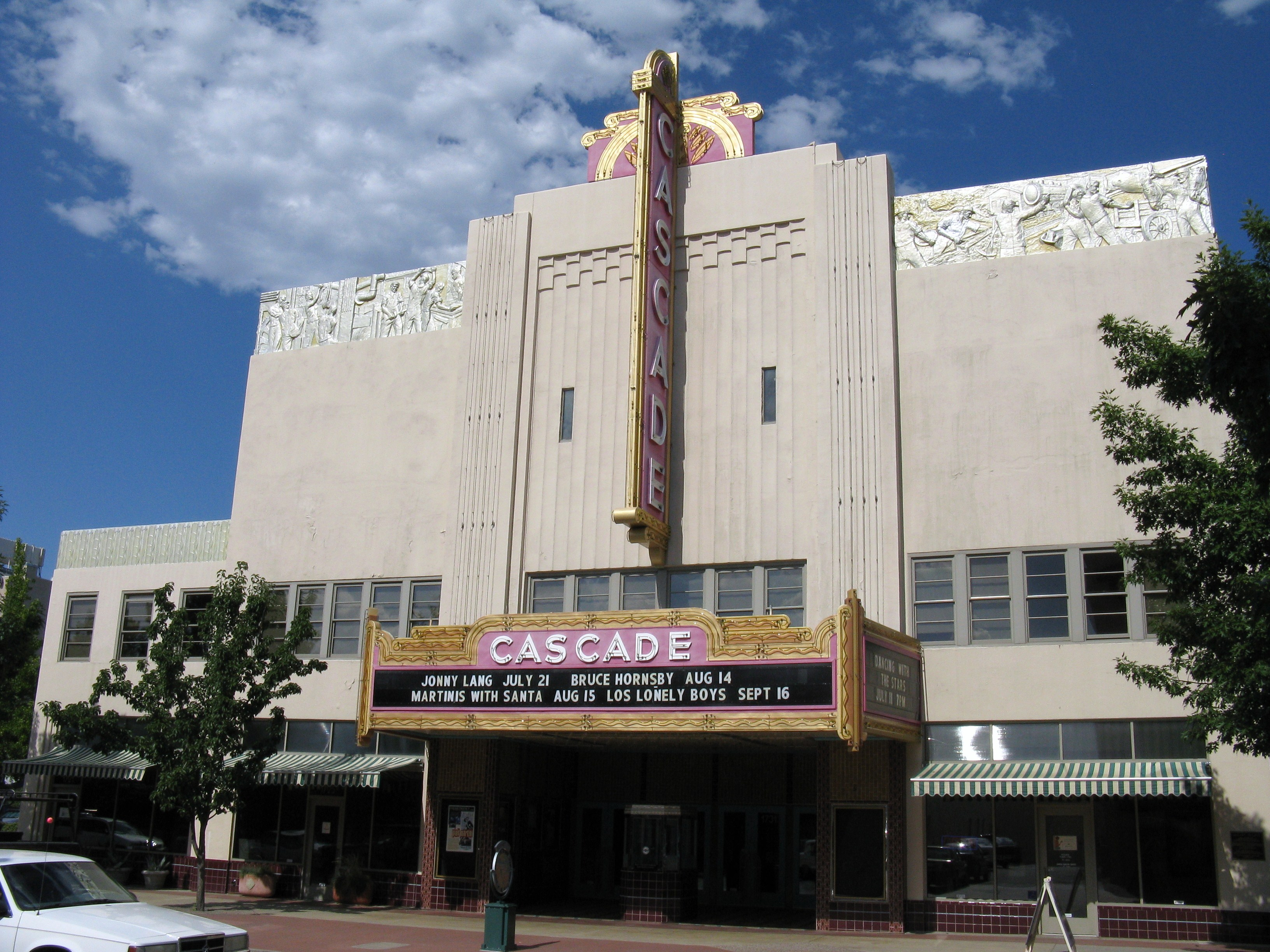 The Cascade Theatre in Downtown Redding, California. This building is listed on the National Register of Historic Places.